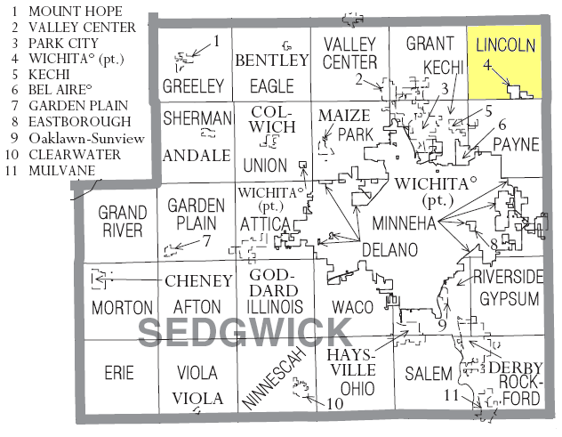 Map of Sedgwick County, Kansas highlighting Lincoln Township